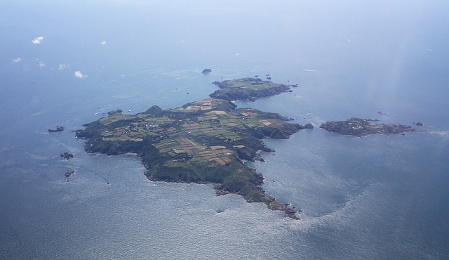 Sark from the air. Viewed from the north on a flight from Gloucester to Jersey. The island to the right of the picture is Brecqhou. Sark has a population of around 600.